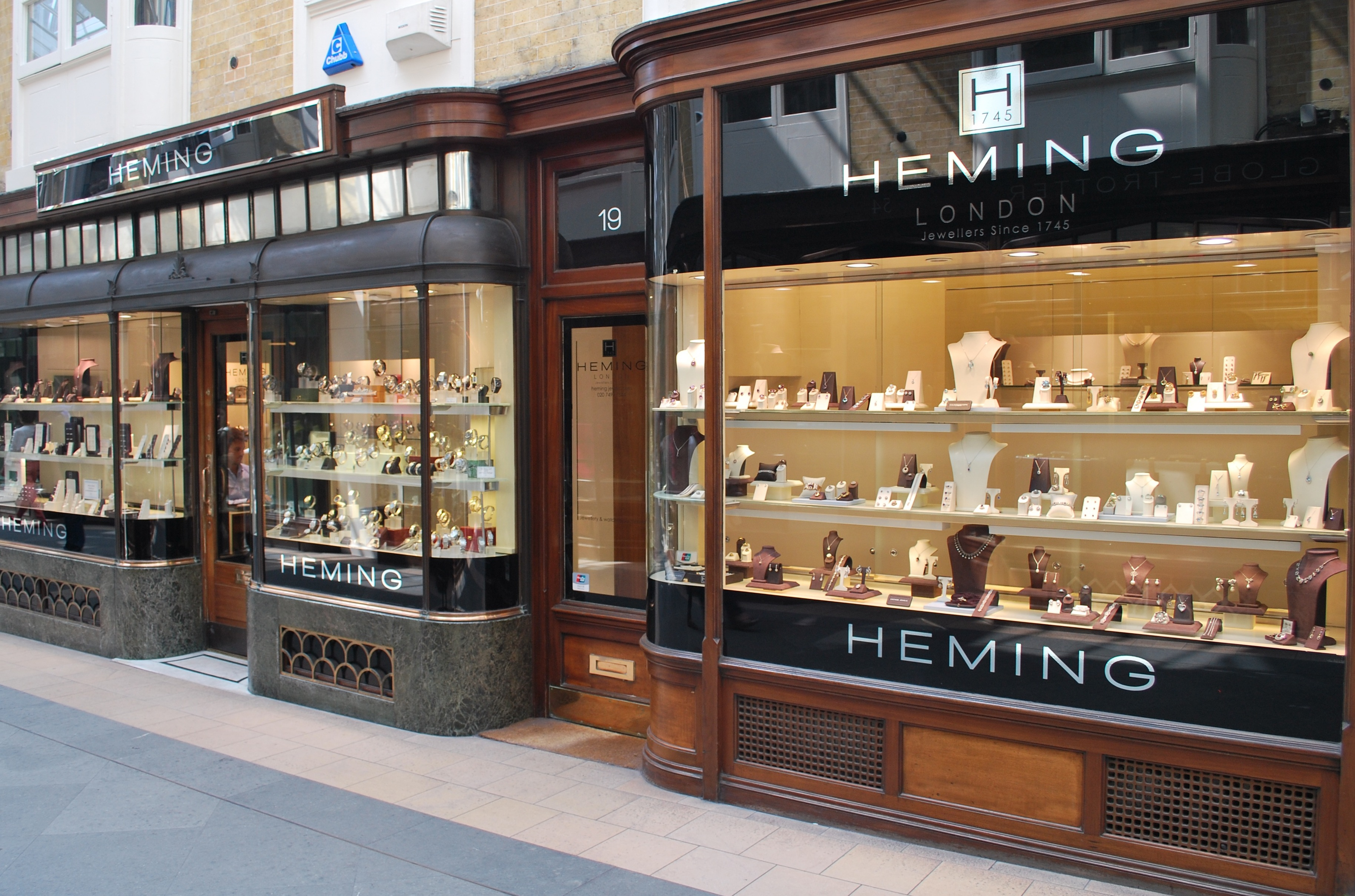 View of the current Heming store at Numbers 18-19 Burlington Arcade in London's Mayfair district. Ref